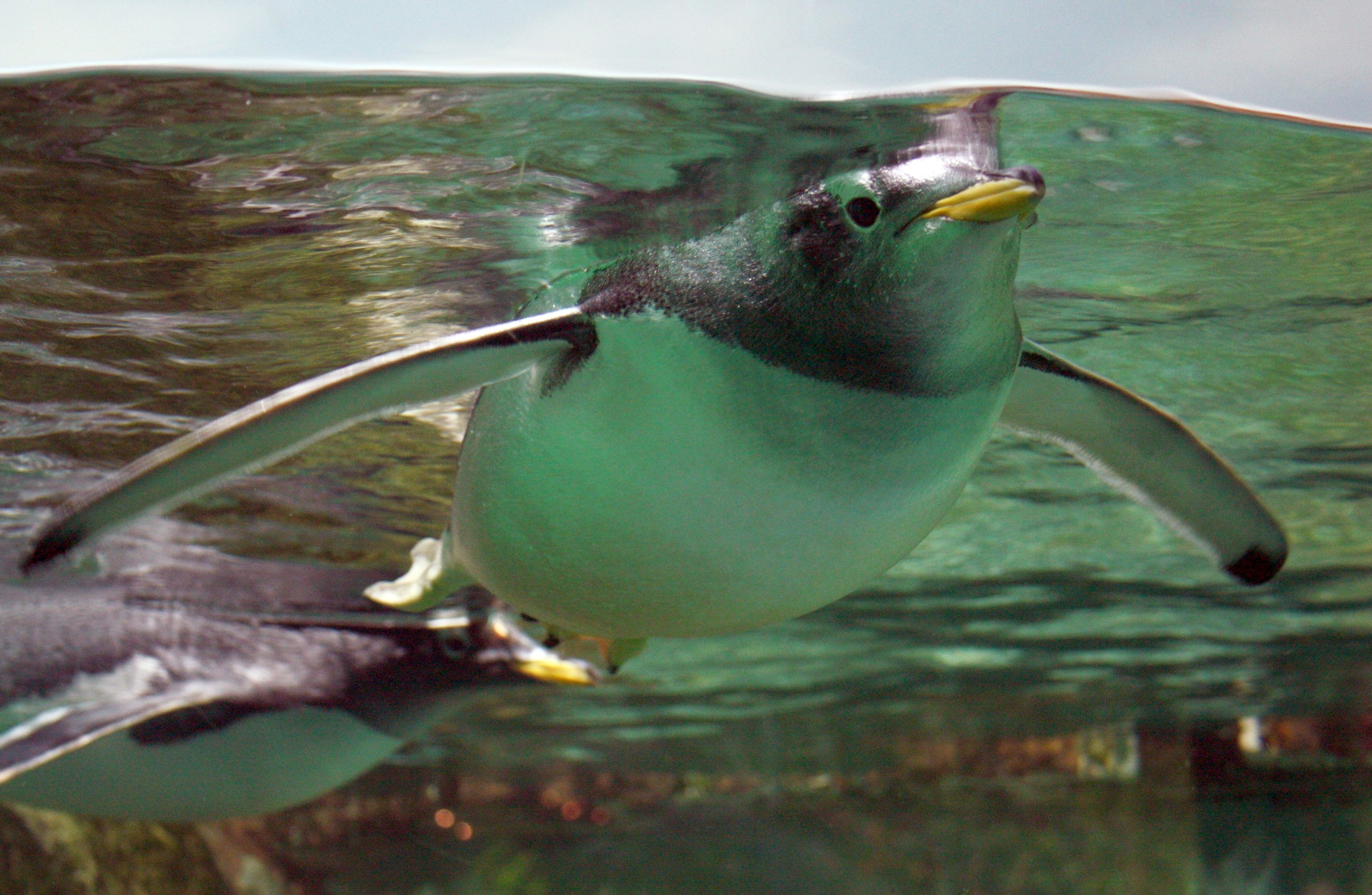 Gentoo Penguin at Frankfurt Zoo, Germany.